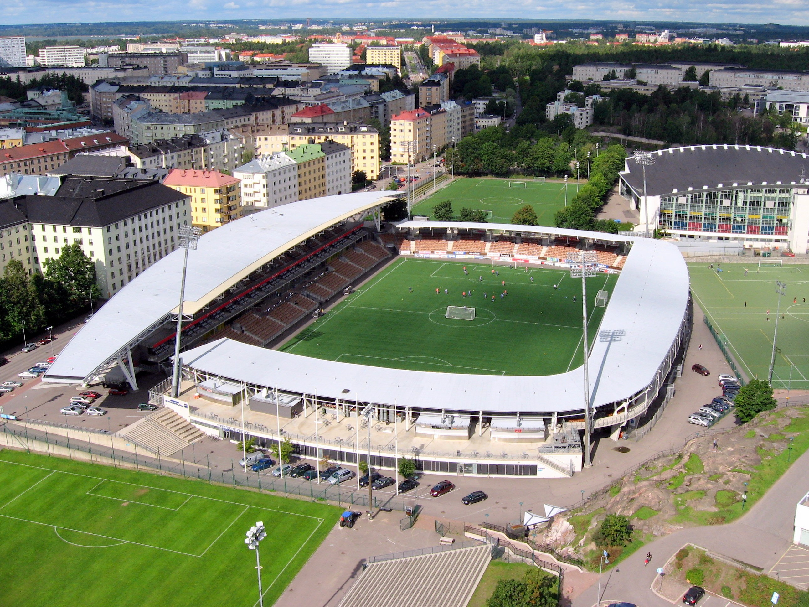 Finnair Stadium, Helsinki, as seen from the olympic tower.